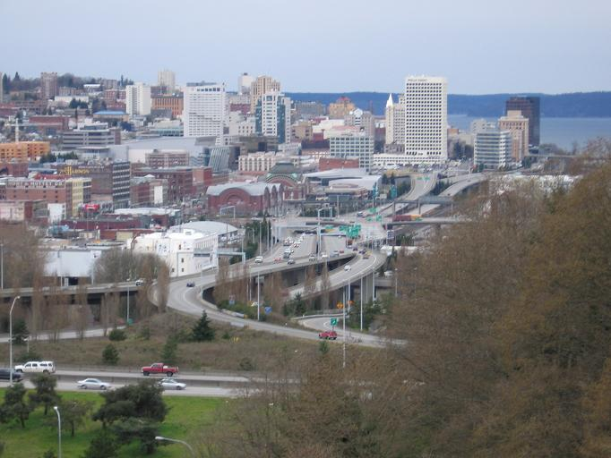 Downtown Tacoma from the bridge next to Stanley and Seaforts Category:Tacoma, Washington